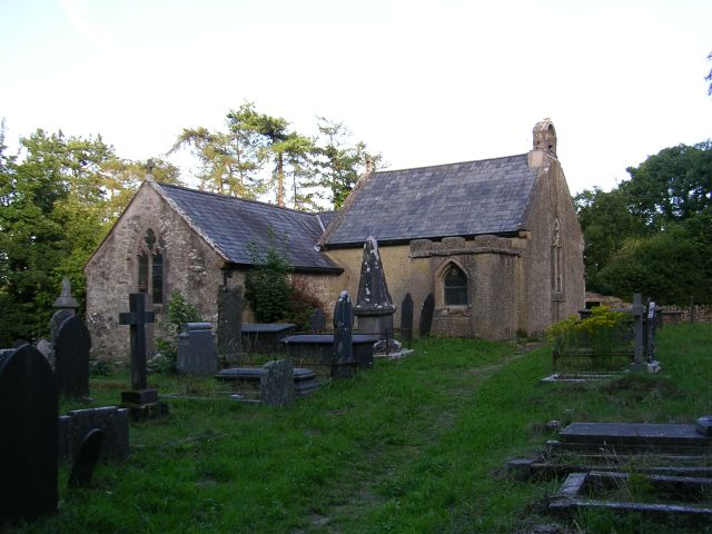 St Eugrad's Church, Parish of Llaneugrad with Llanallgo. This isolated church dates from the 12th Century. Taken from SH496842 looking NW.